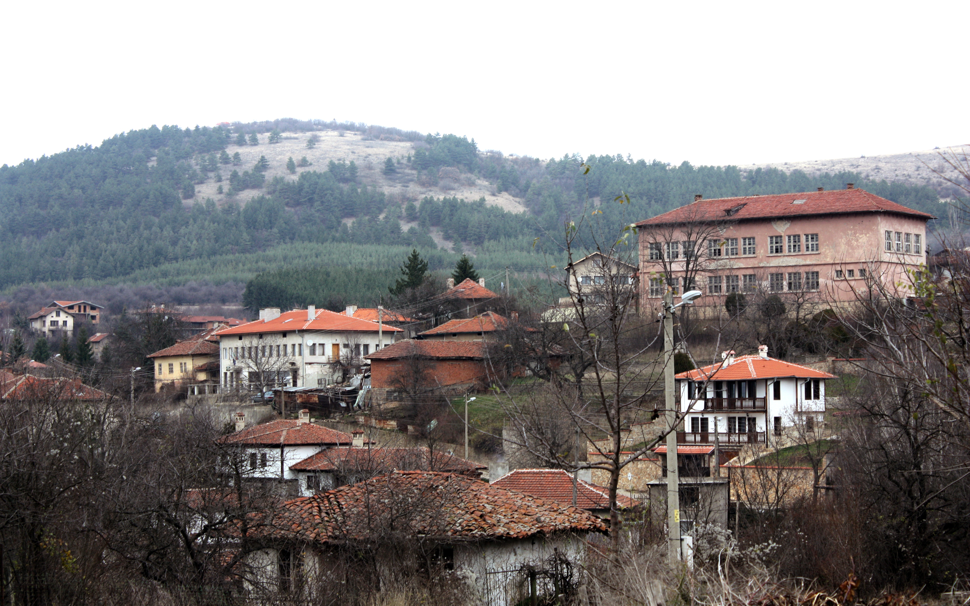 Baylovo old center district